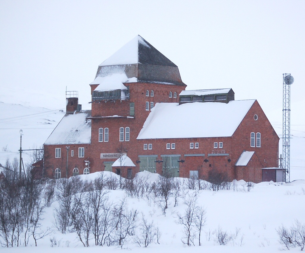 Vassijaure railway station, Kiruna, Sweden.